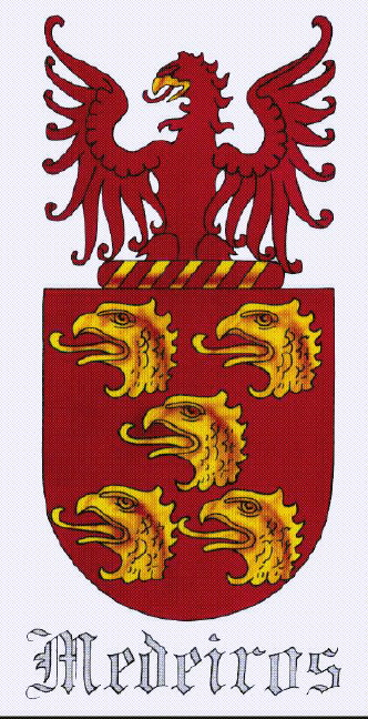 Medeiros Flag